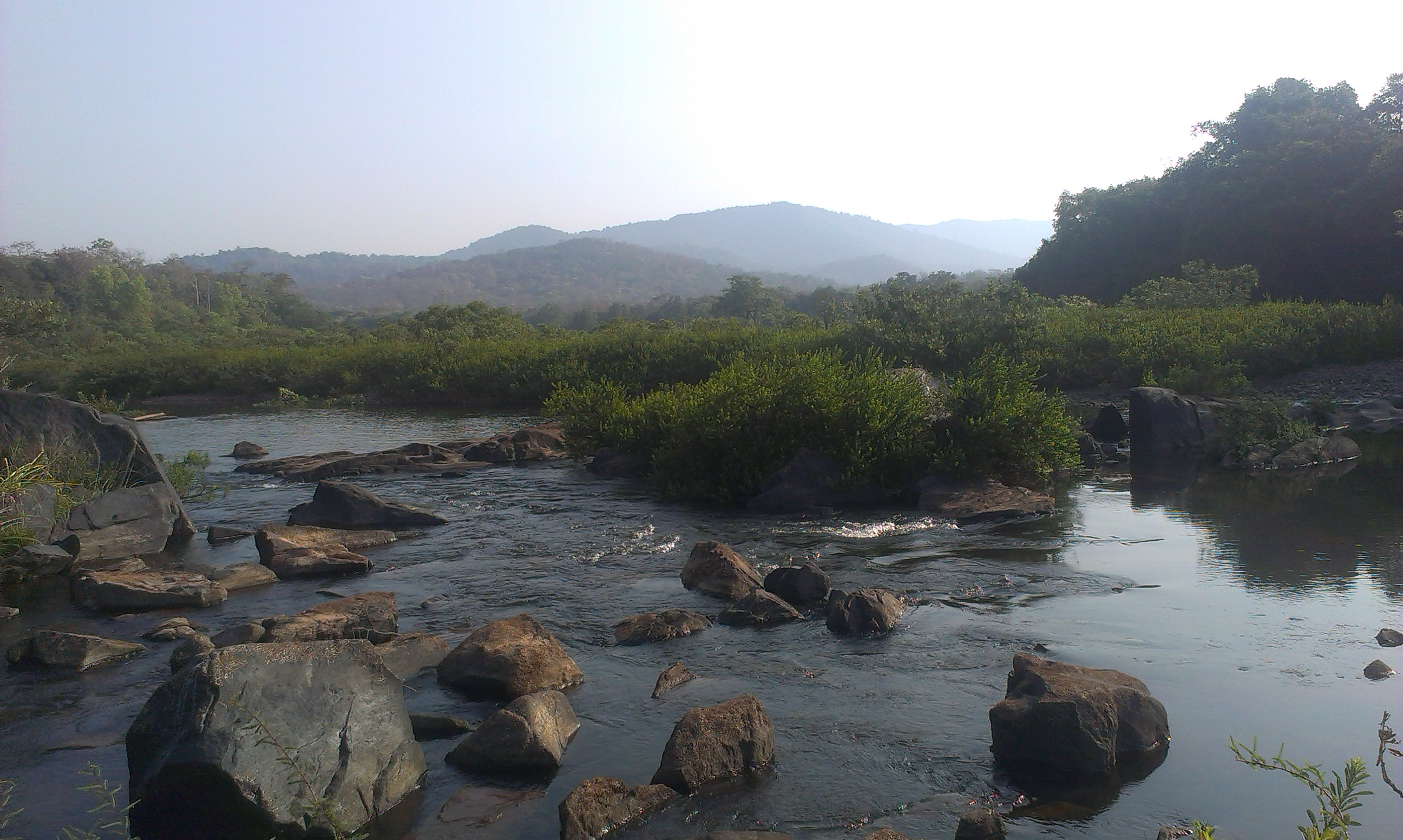 River Aghanashini as seen from Saanthgal